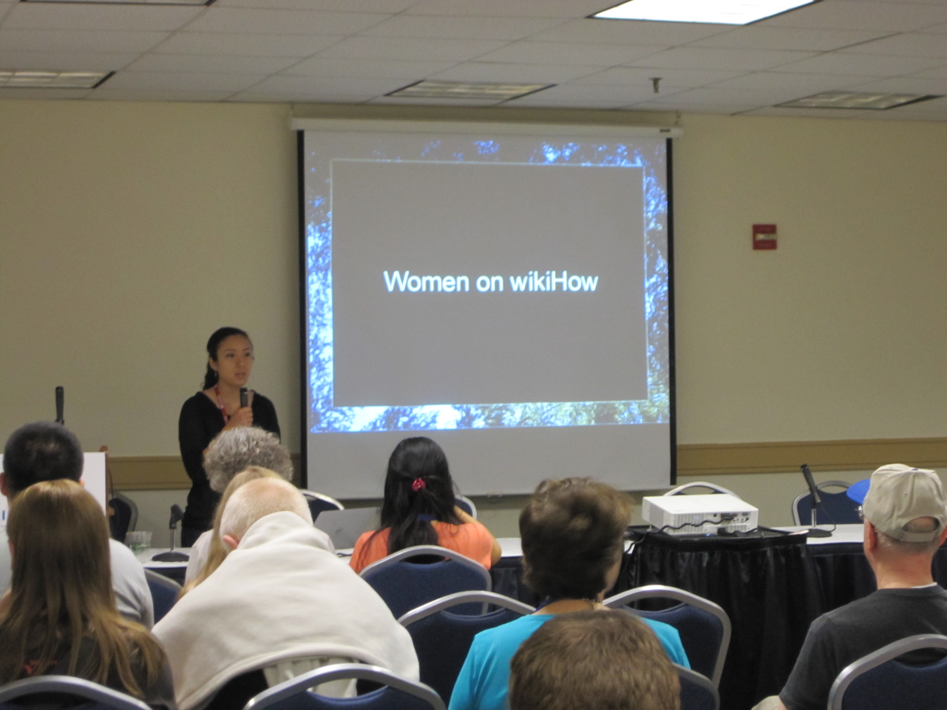 "Women on WikiHow" workshop at Wikimania 2012.